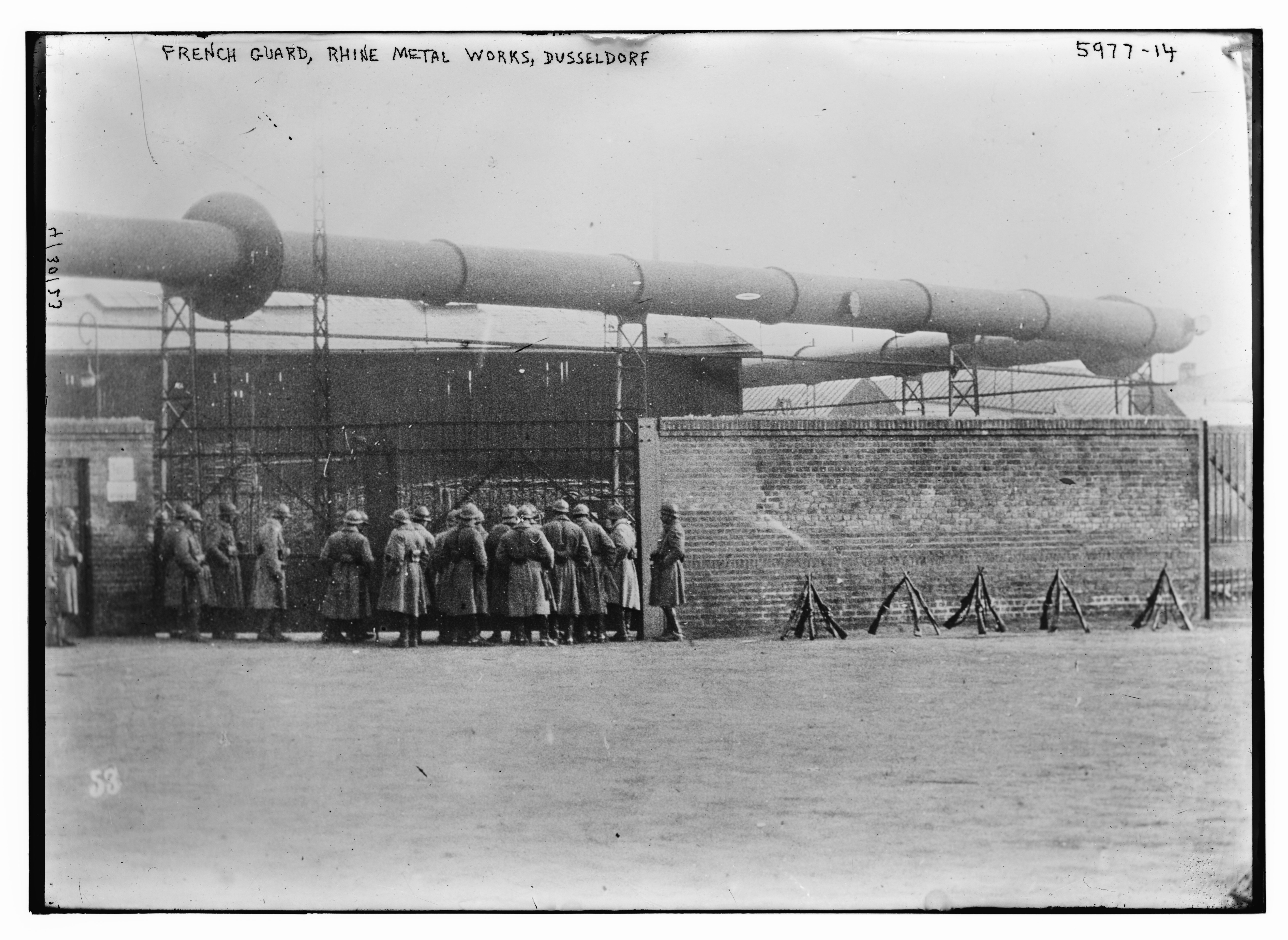 Title: French guard, Rhine Metal Works, Dusseldorf Abstract/medium: 1 negative : glass ; 5 x 7 in. or smaller.